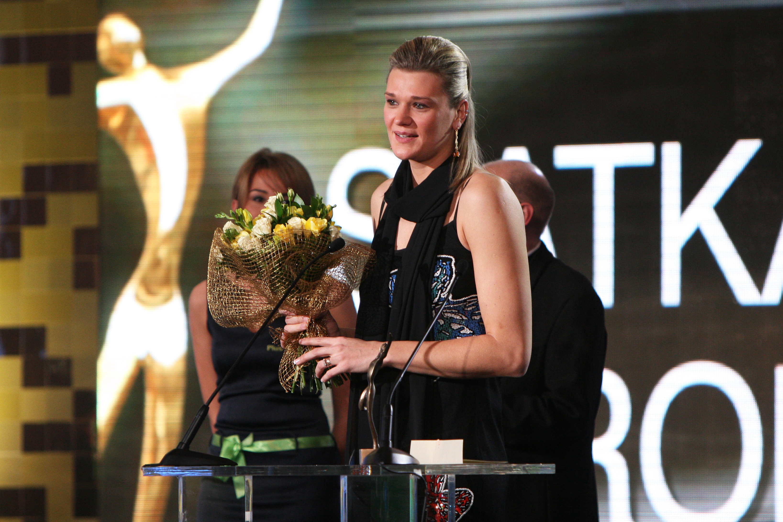 Winner of the tittle Woman Volleyball Woman Player of the 2008